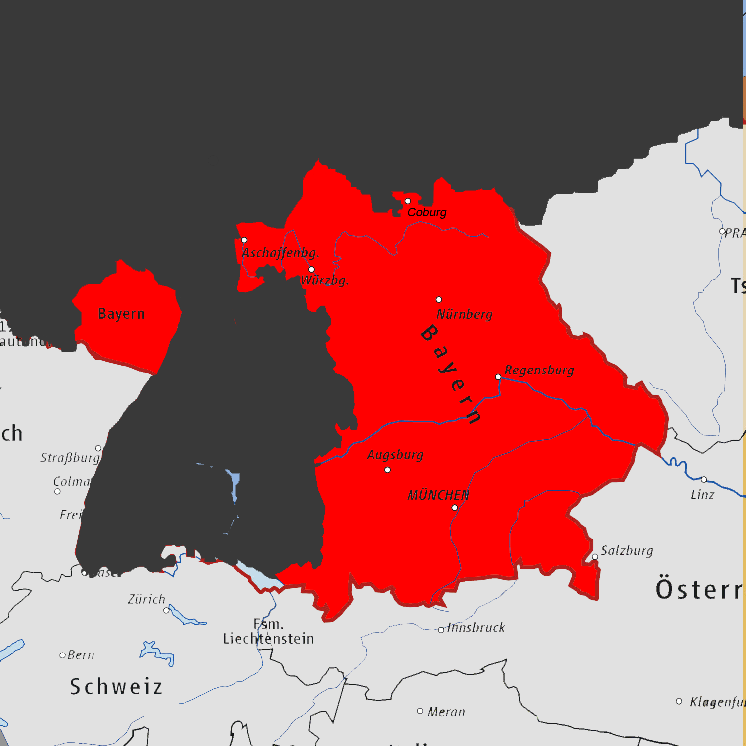 A map of the Bavarian Soviet Republic. The soviet republic is shown in red, the Weimar Republic is shown in dark grey and other nations are shown in light grey.